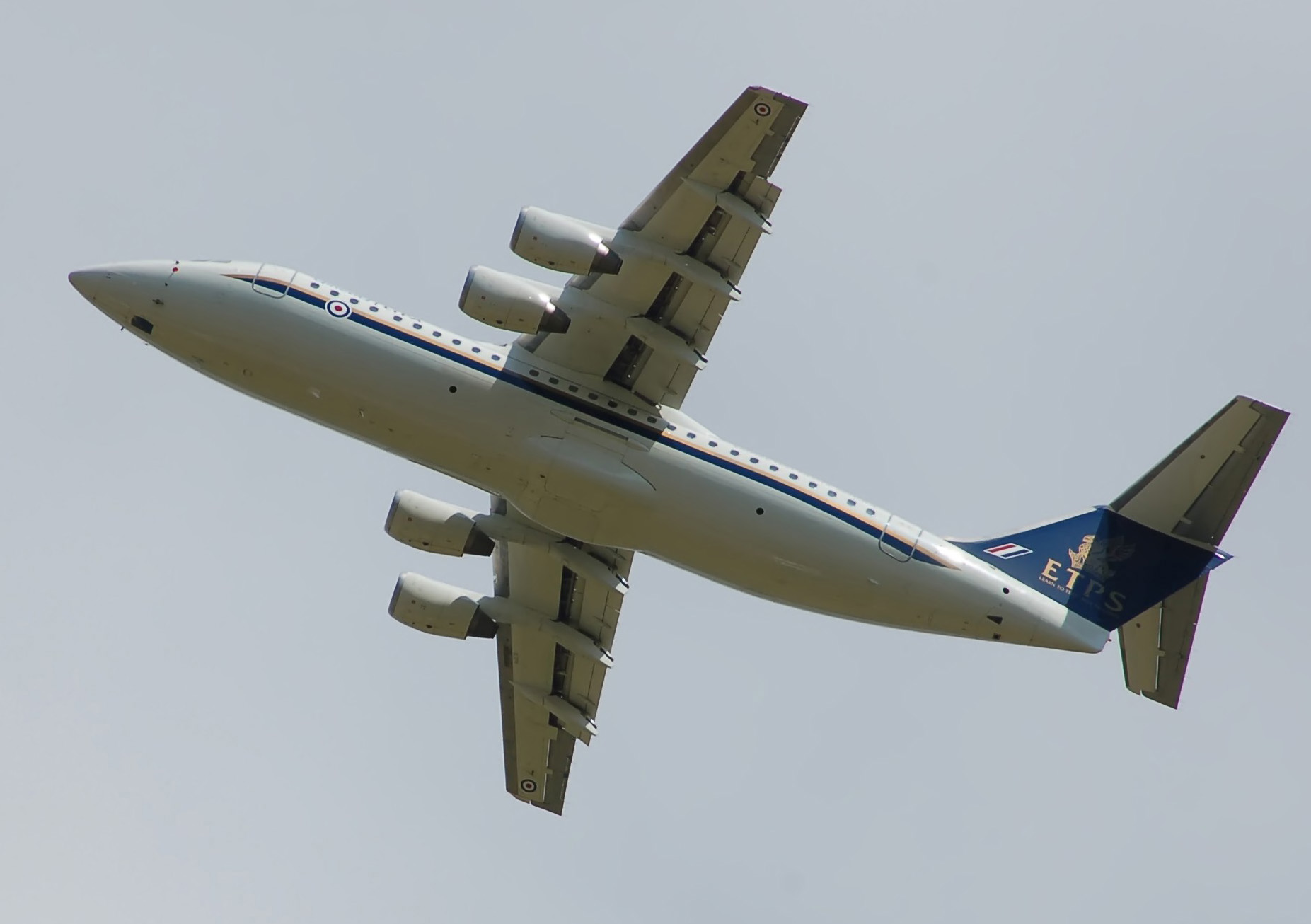 Qinetiq BAe Avro RJ100 (QQ101)departs the Royal International Air Tattoo, Monday 14th July 2014. The forward fuselage marking is Qinetiq/LTPA. Originally G-BZAY with British Airways, this RJ was added to the military register in October 2012 following its acquisition by QinetiQ for the Empire Test Pilots School at Boscombe Down, with whom it is used for training test pilots and flight test engineers to support the entry into service of military aircraft and systems.